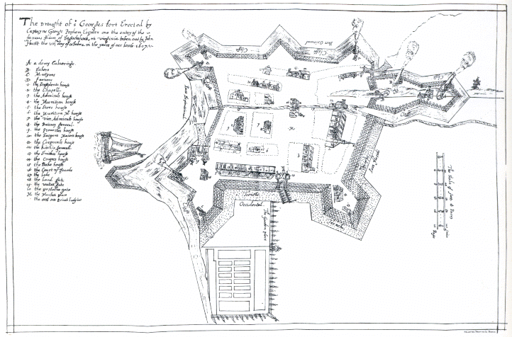 John Hunt's map of Fort St George (Popham Colony) created in 1607 or 1608. Image copied from